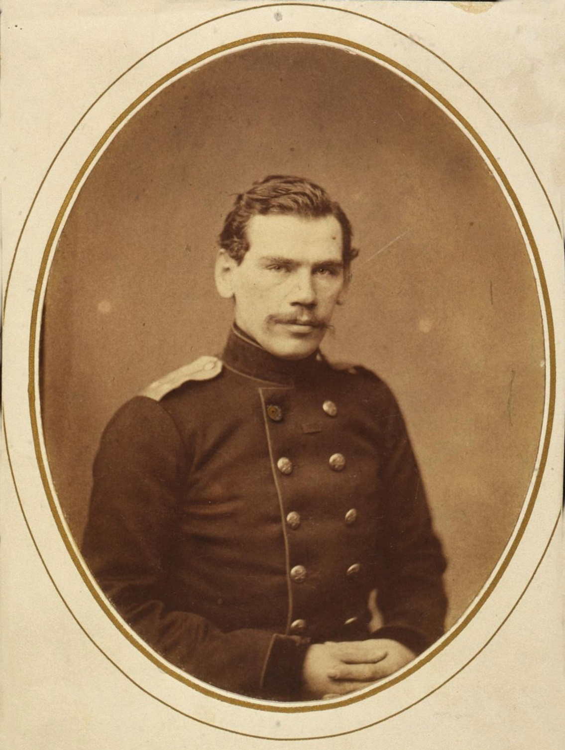 Leo Tolstoy